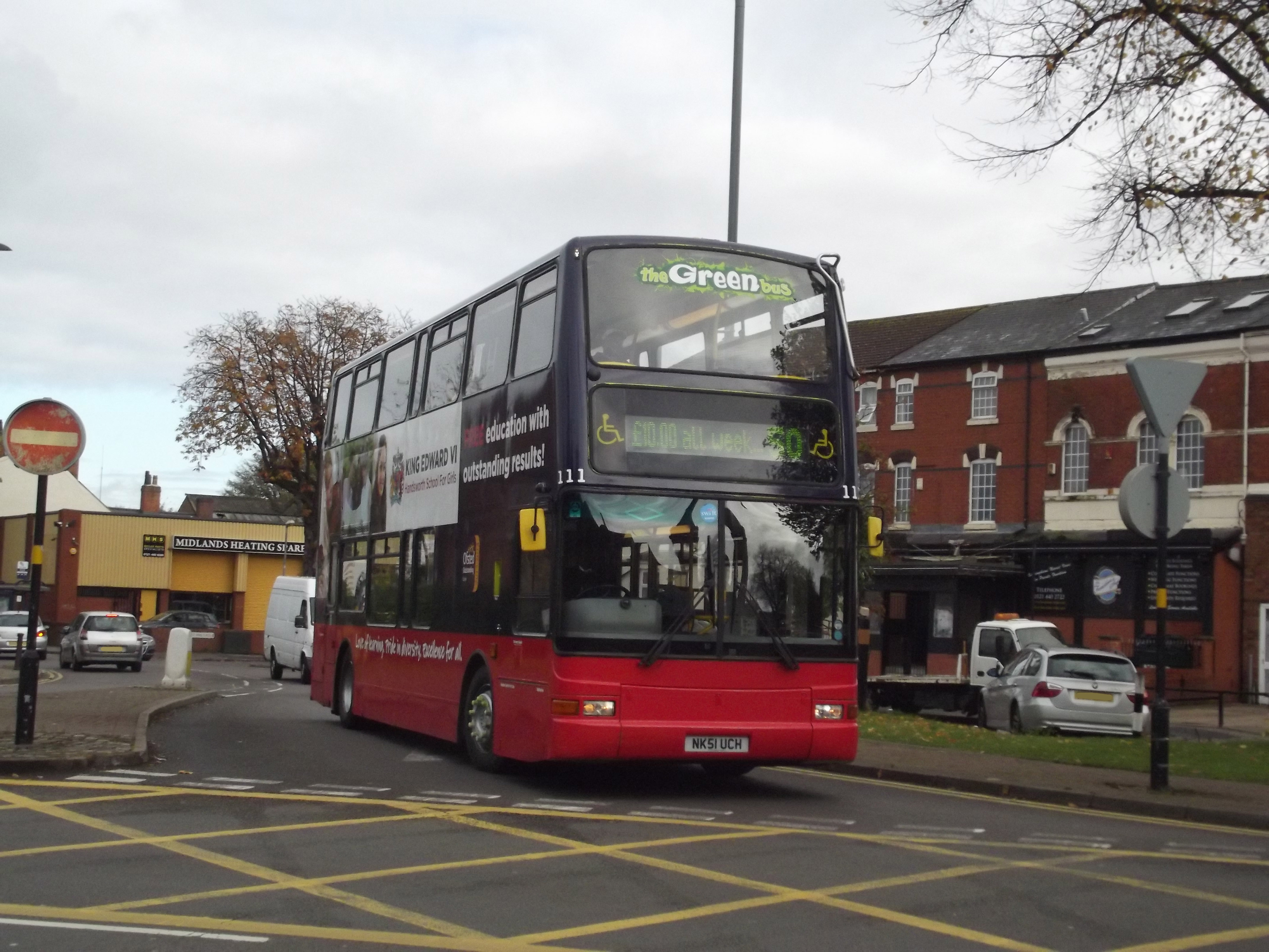 The junction of Hayden Way and Moseley Road in Balsall Heath. Near Highgate. The A435 continues to the left (Hayden Way). While Moseley Road continues on to the right! The no 50 buses normally stay on Moseley Road at this point. The Green Bus - King Edward VI NK51 UCH Handsworth School for Girls. Not very green! Rejoining the A435 from the Highgate end of Moseley Road. On the 50.